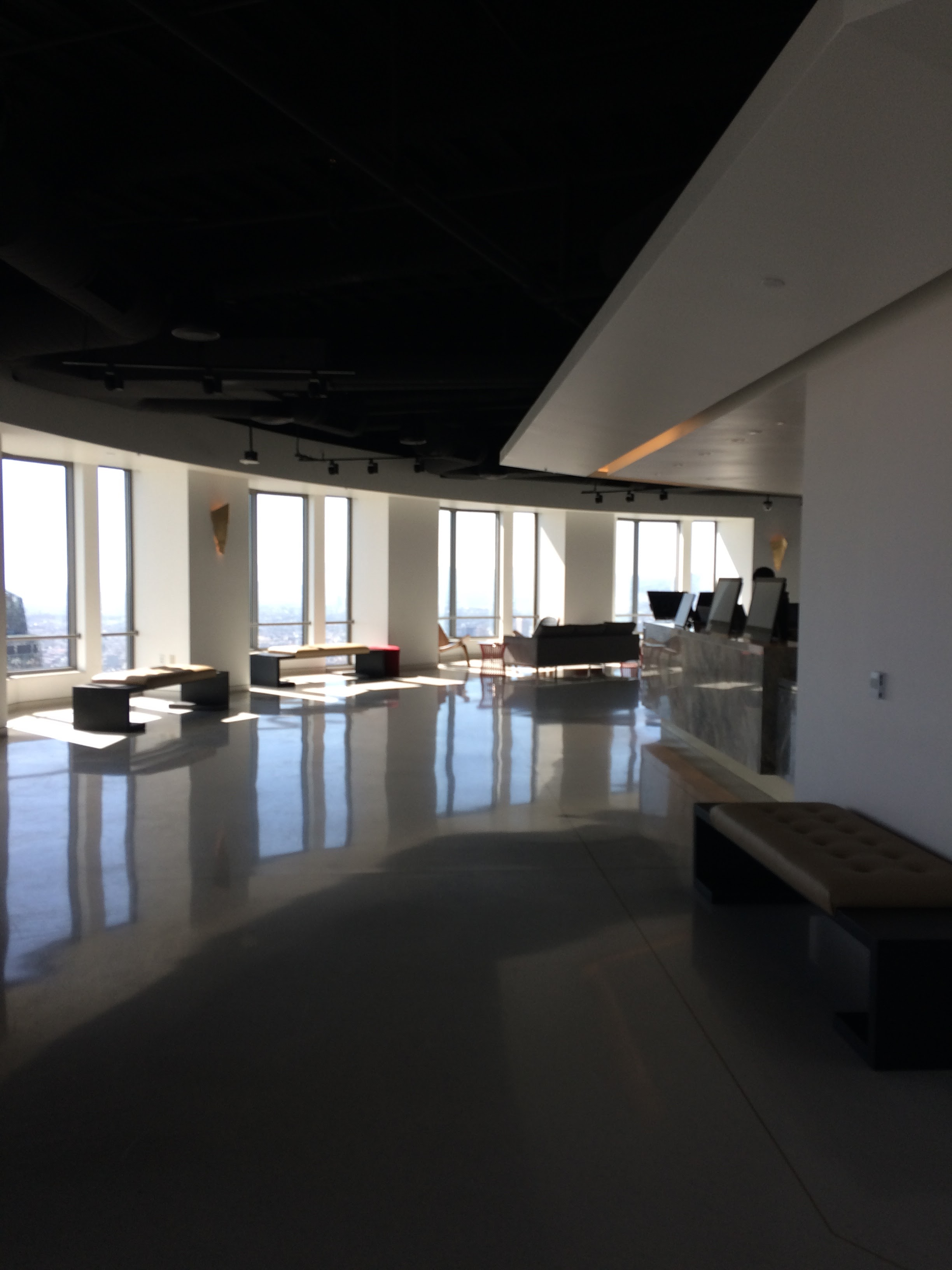 Interior of the OUE Skyspace LA observation deck atop the U.S. Bank Tower in Los Angeles, California, U.S.